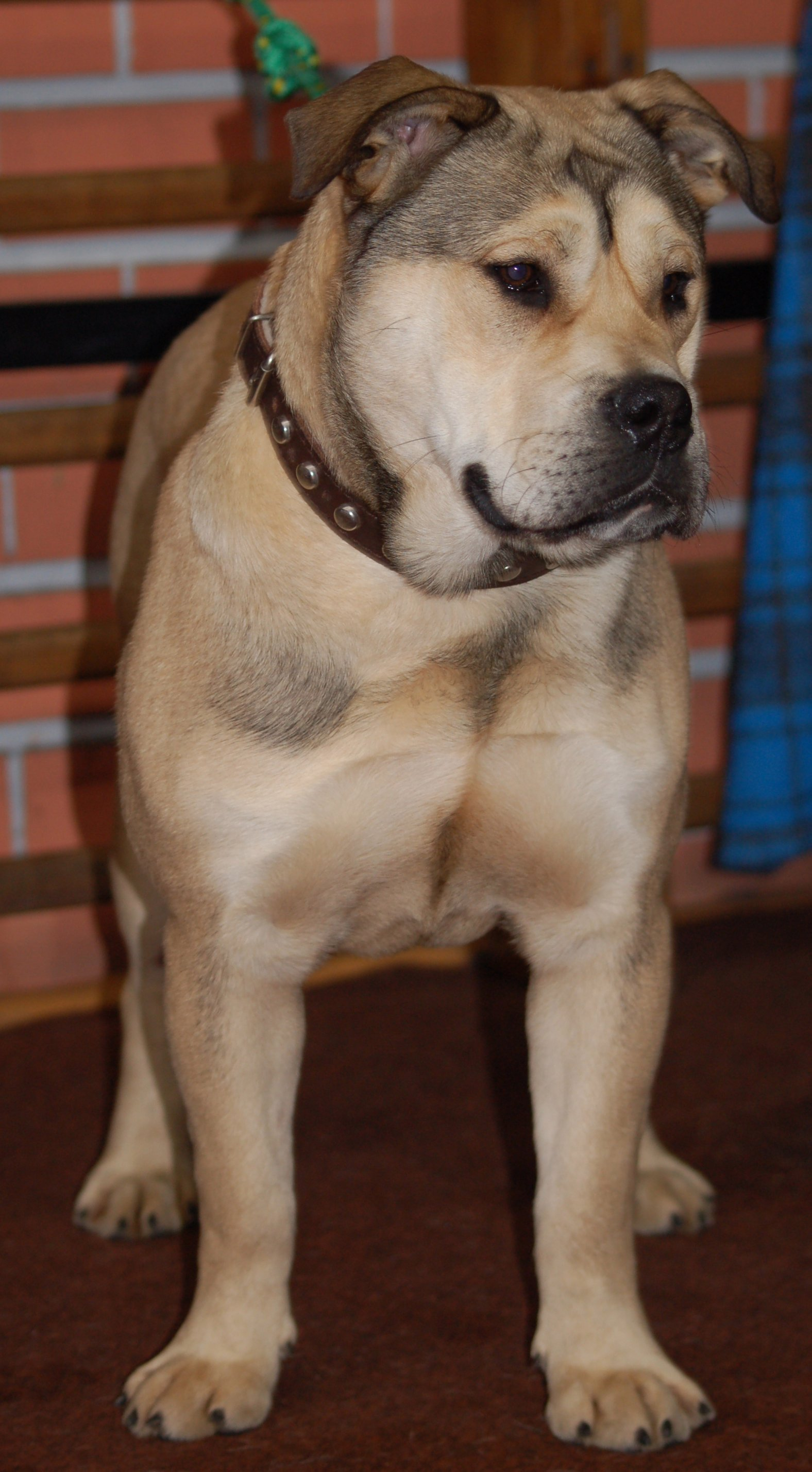 Majorca Mastiff during dogs show in Katowice, Poland